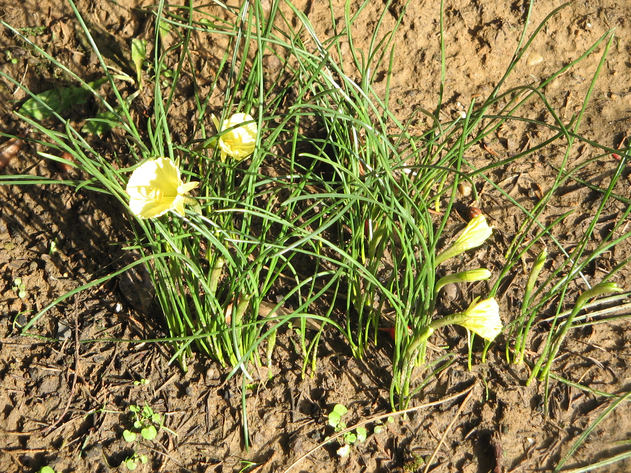 Narcissus romieuxii